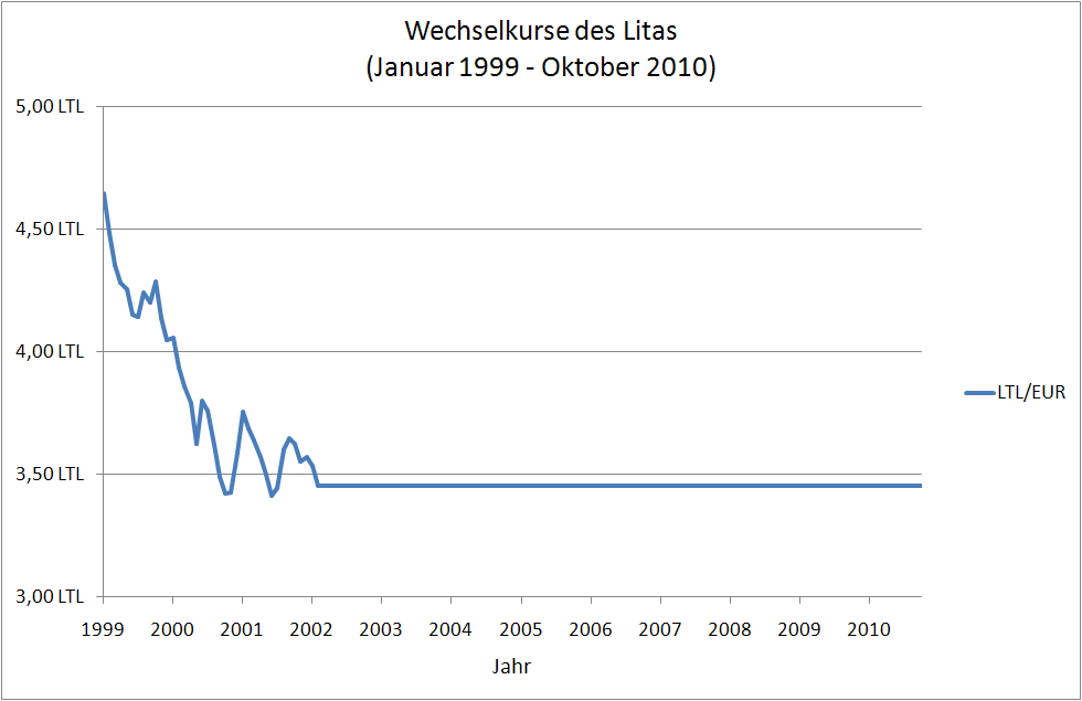 Exchange rates: litas to euro period: 01.01.1999 - 01.10.2010